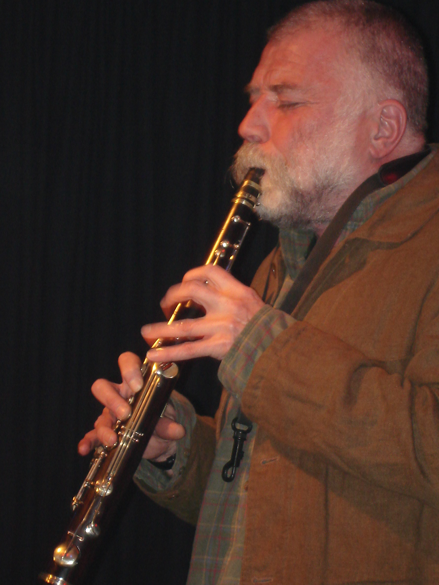 Peter Brötzmann playing the tarogato